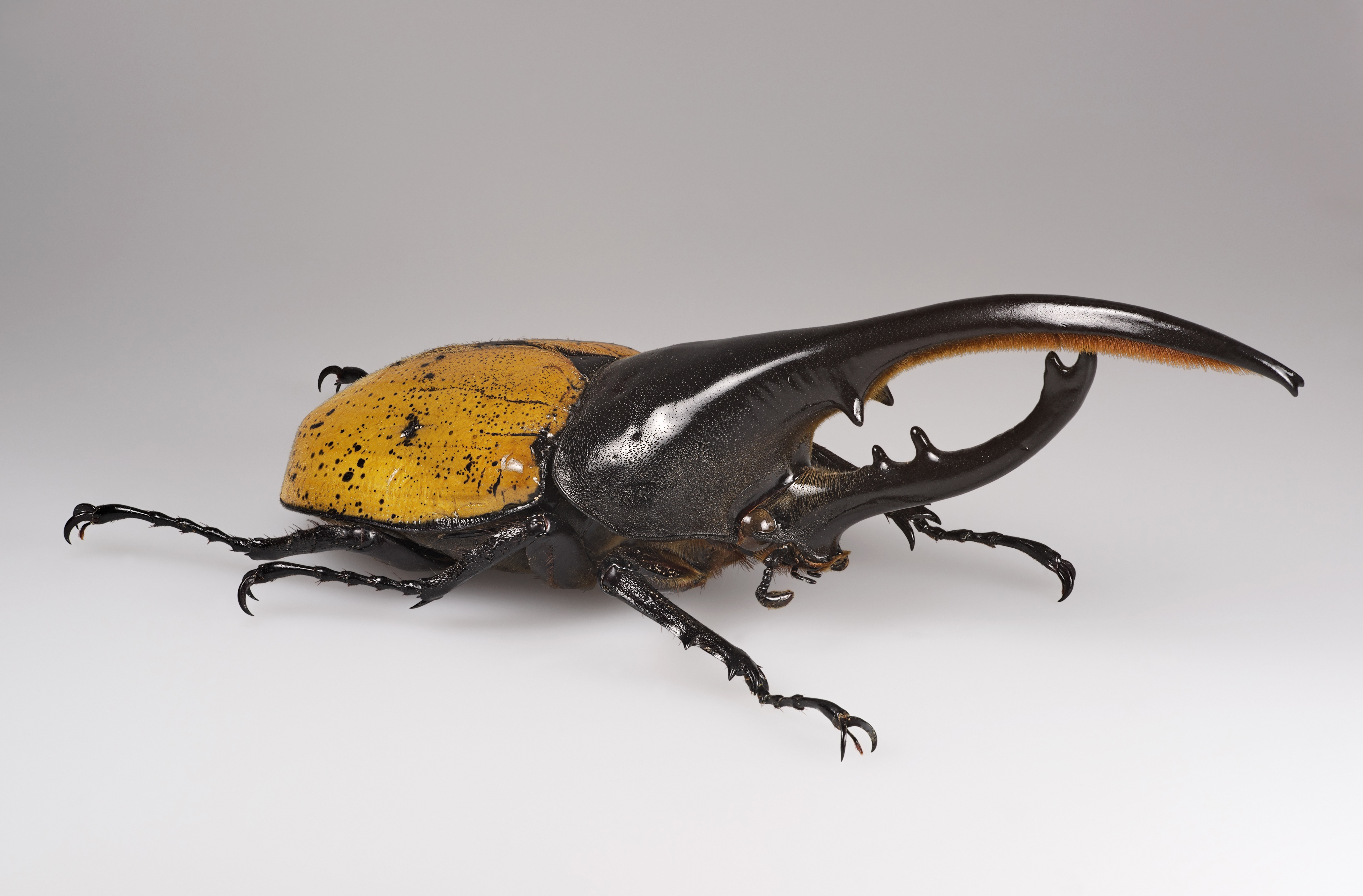 Hercules beetle ♂ - 15.5 cm Locality: Iquitos, Loreto, Northern Peru